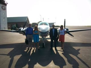 MBAs with Entrepreneurship Director Chris Hanks fly to South Georgia to launch a business